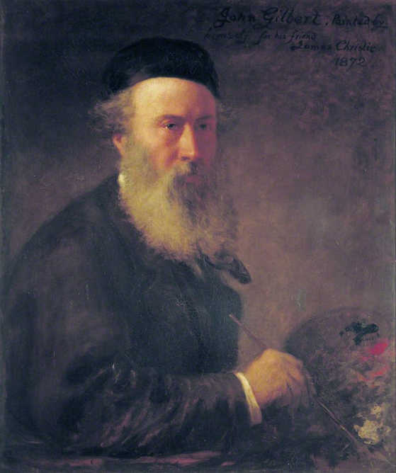 Self portrait oil on canvas 76 x 64 cm 1872